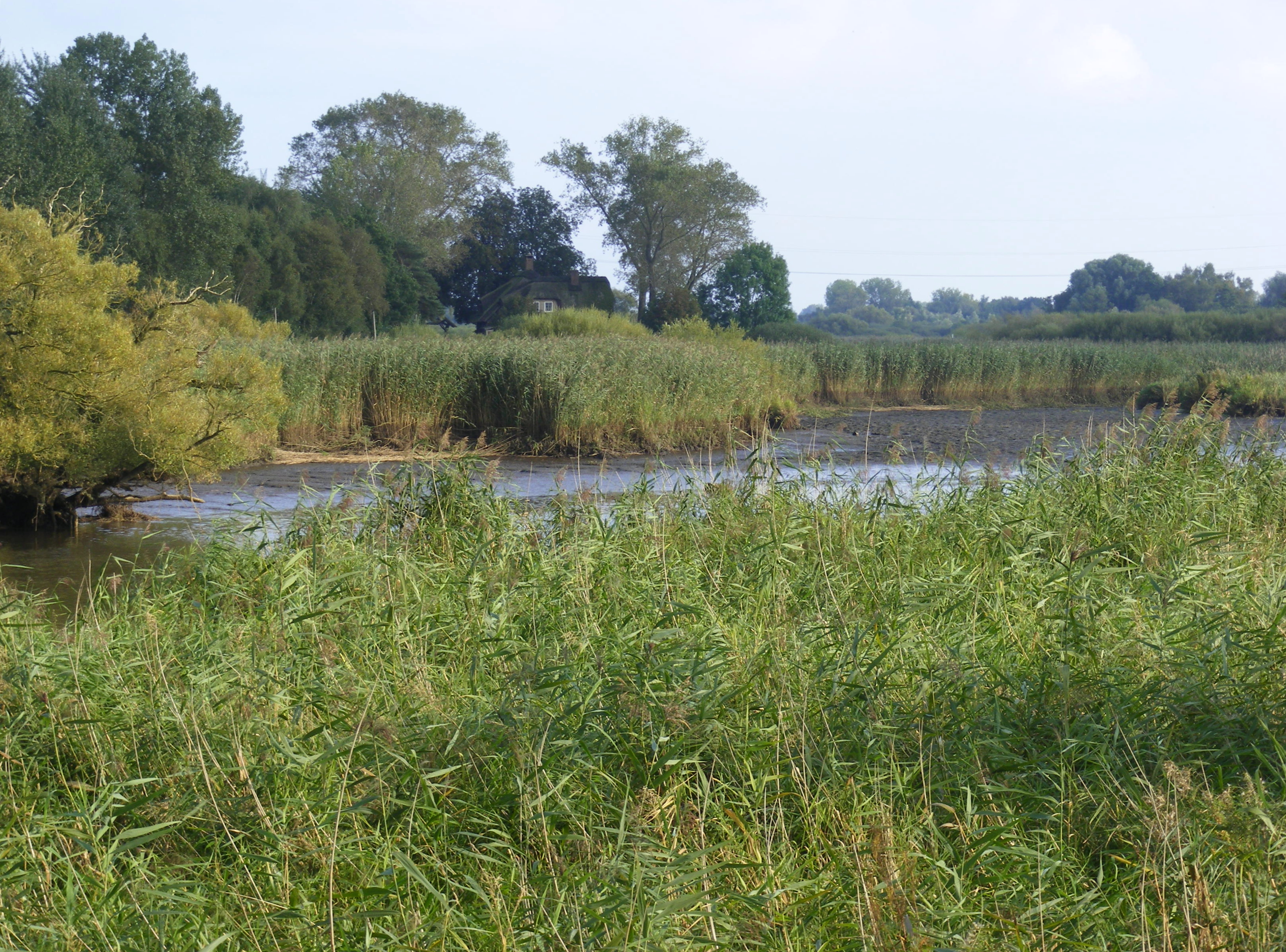 Mudflats in the freshwater region of lower Wümme in September with low tide